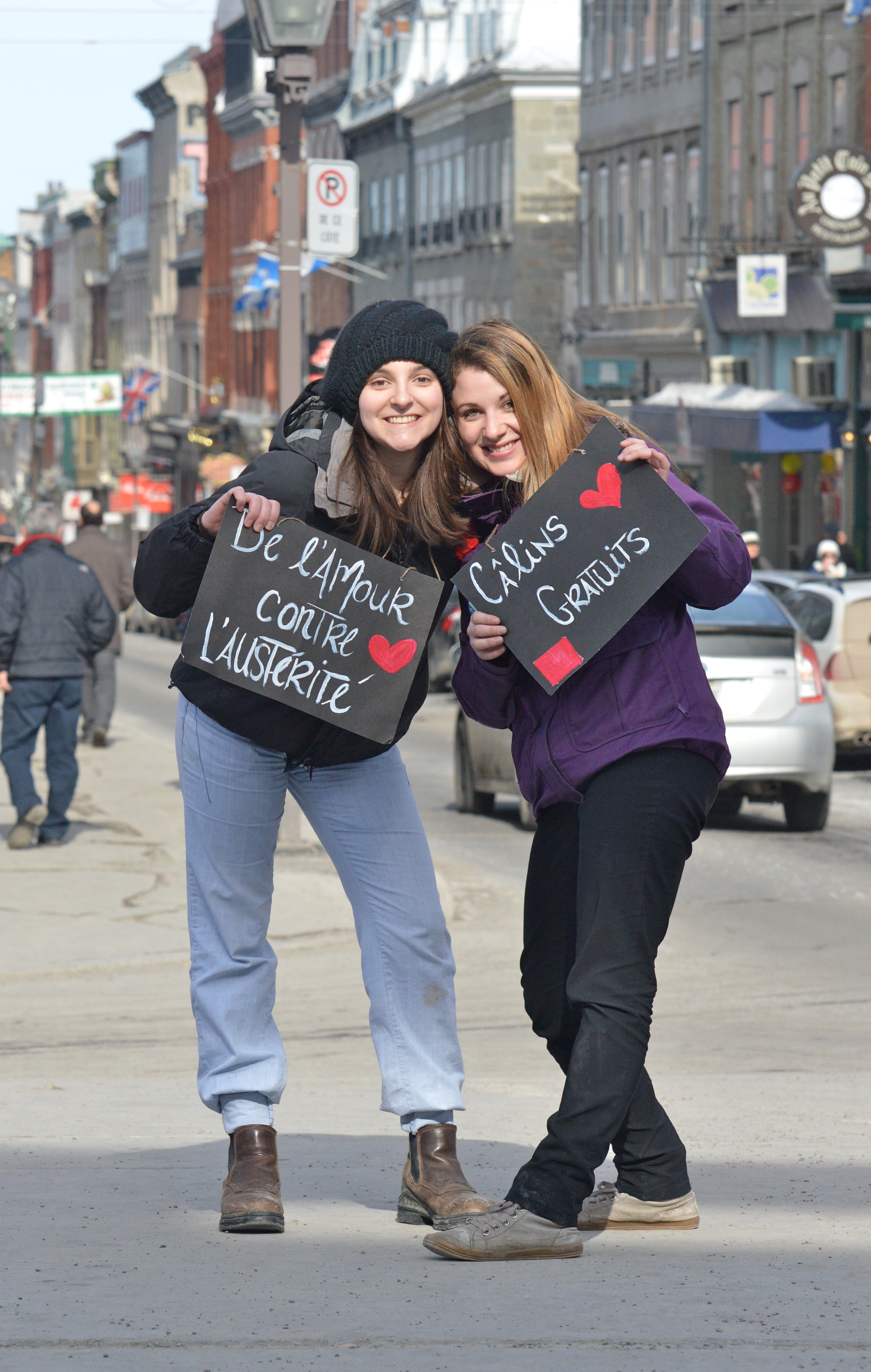 Free hugs, love against austerity (photo taken near Saint-Jean gate, in Québec)